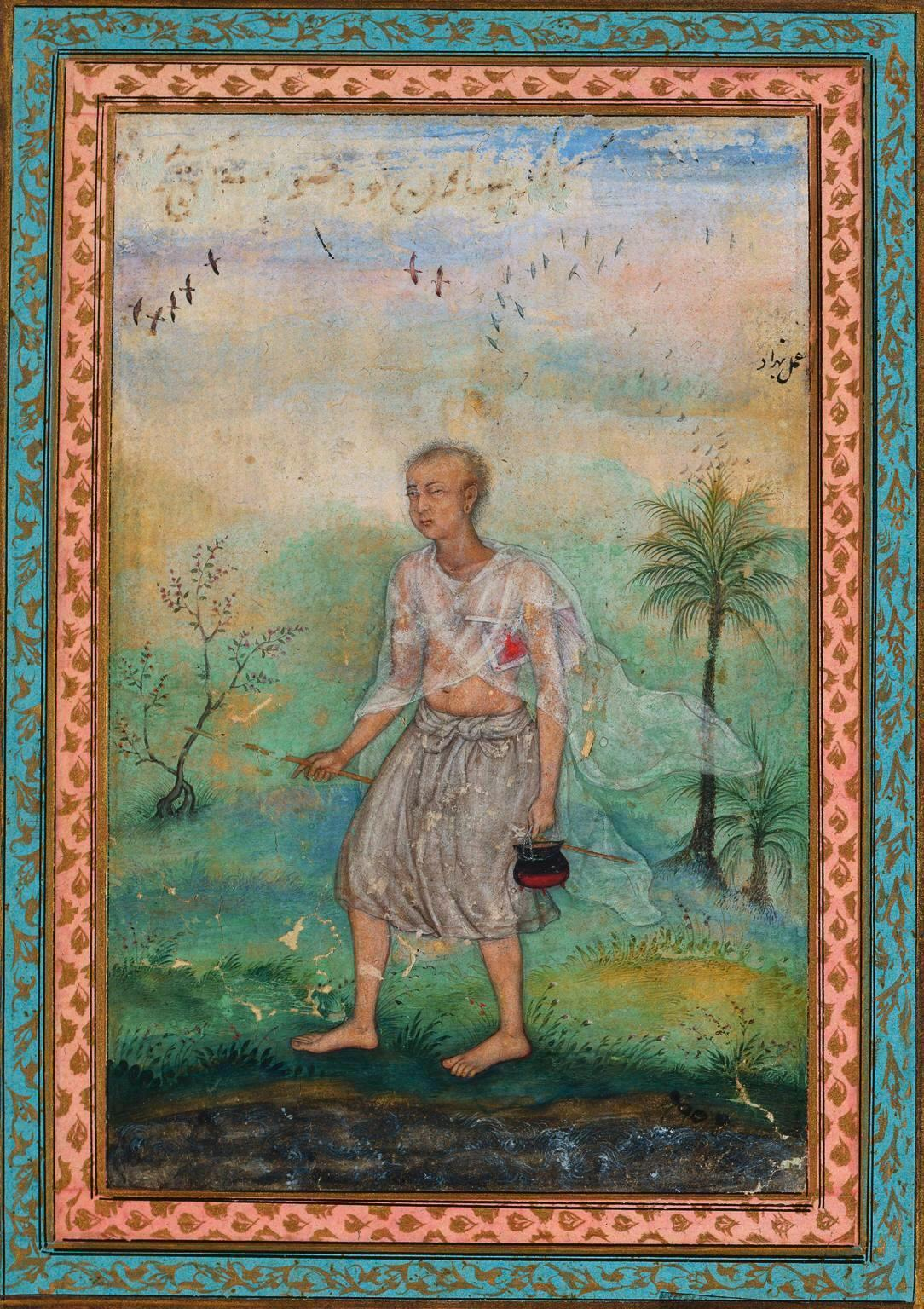 Basawan. Jain-Ascetic-Walking-Along-a-Riverbank-ca.1600.Cleveland Museum of Art